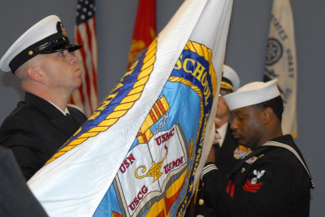 Photo of personnel from U.S. Naval Chaplain School and Center, located on the campus of the Armed Forces Chaplaincy Center, Ft. Jackson, Columbia, South Carolina, prepare for the first Navy chaplain graduation since the school's move to SC. From caption: Senior Chief Religious Program Specialist Scott Quinn, left, unfurls the colors of the Naval Chaplaincy School and Center during the school's first graduation ceremony for new chaplains Friday.